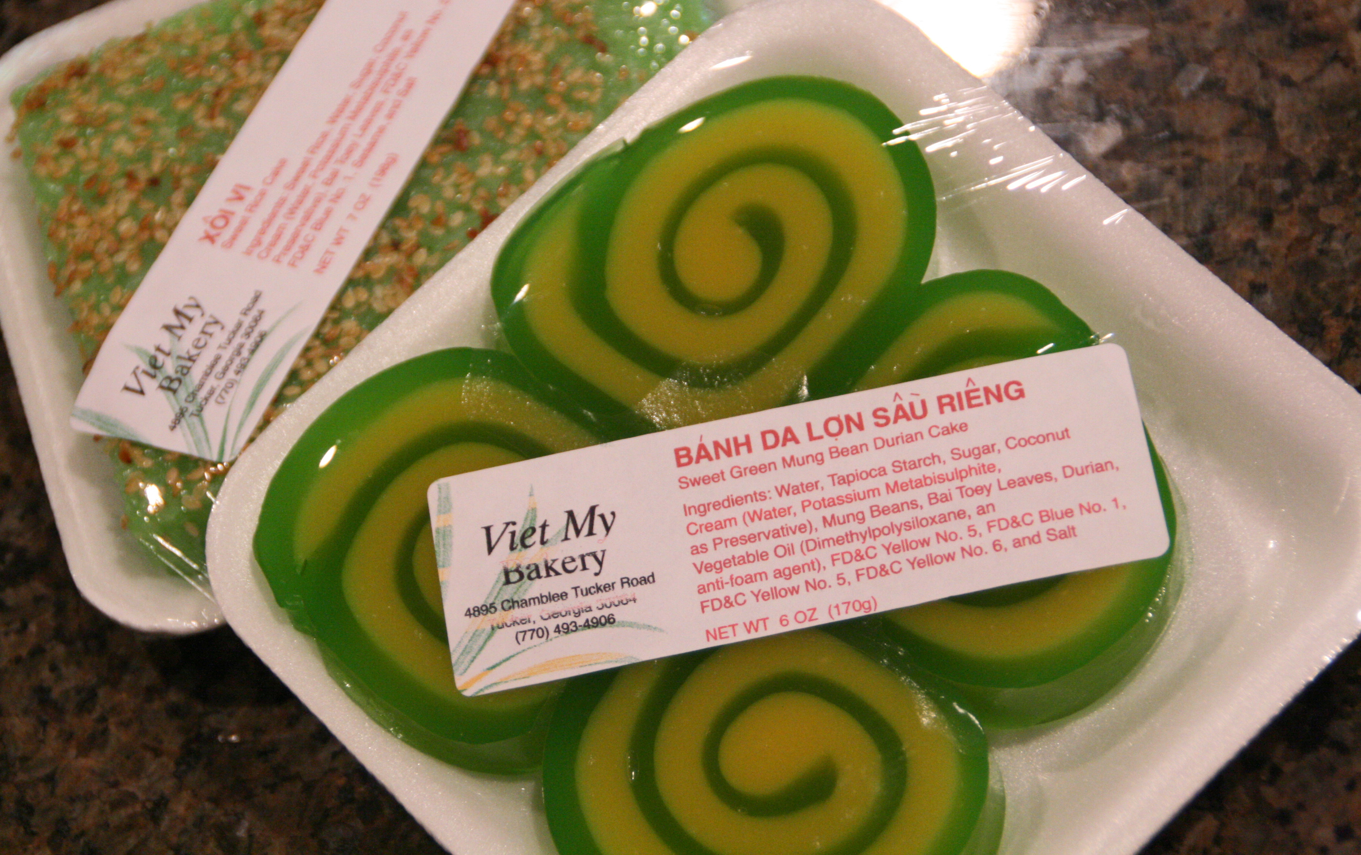 Xoi Vi (sweet rice cake with coconut, bai toey leaves and sesame seeds) and Bánh Da Lợn Sầu Riêng (sweet green mung bean and durian cake). The bean and durian cake had the consistency of a soft gummy bear, not bad!